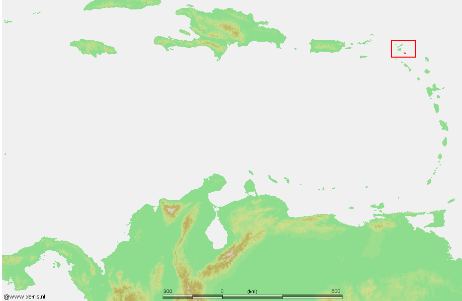 Caribbean - Saint Barthelemy.PNG